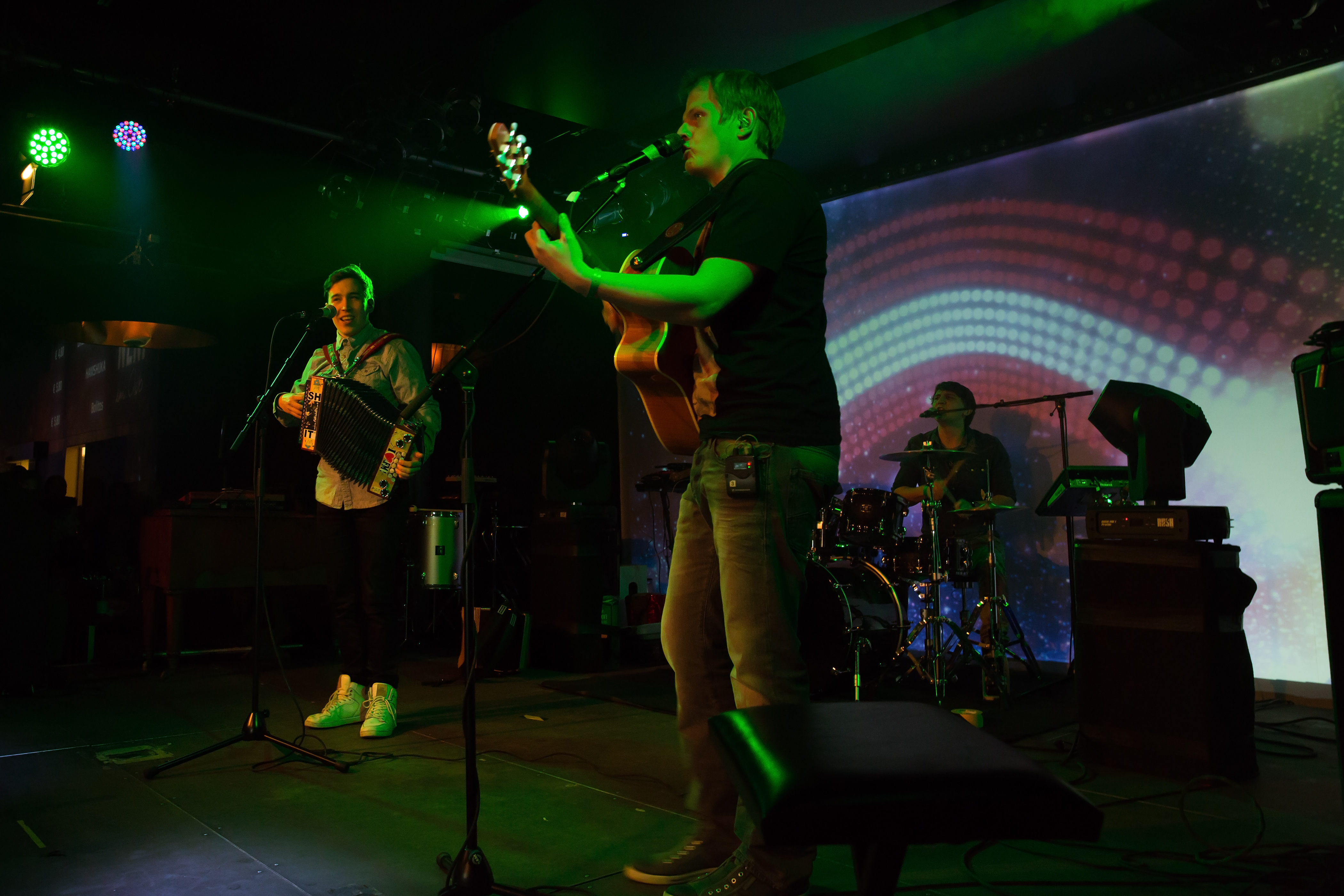 folkshilfe at the concert of the Austrian candidates for participating at the Eurovision Song Contest 2015; Chaya Fuera, Vienna,Austria.